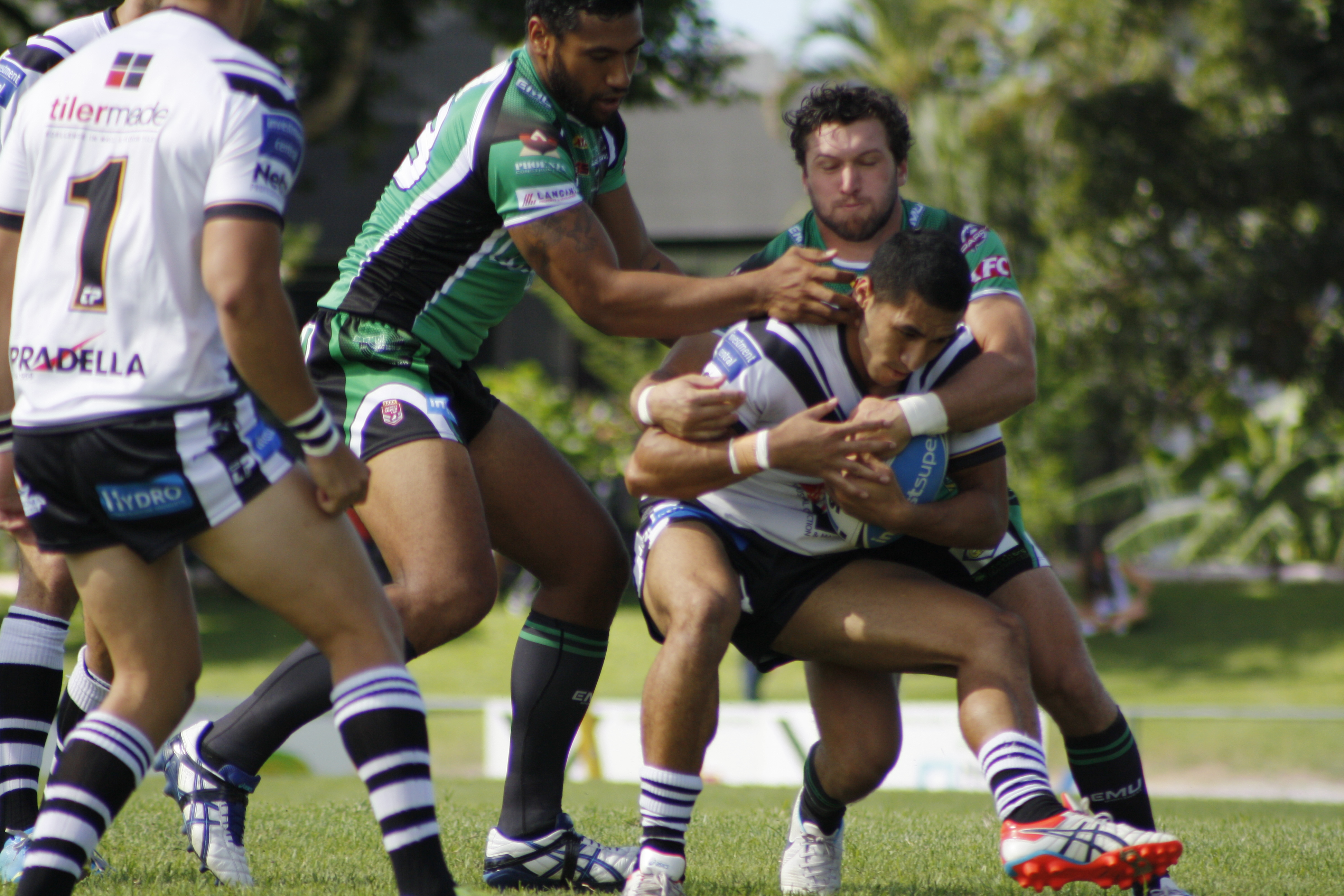 Souths vs Townsville 12 April 2015, Intrust Super Cup, Davies Park